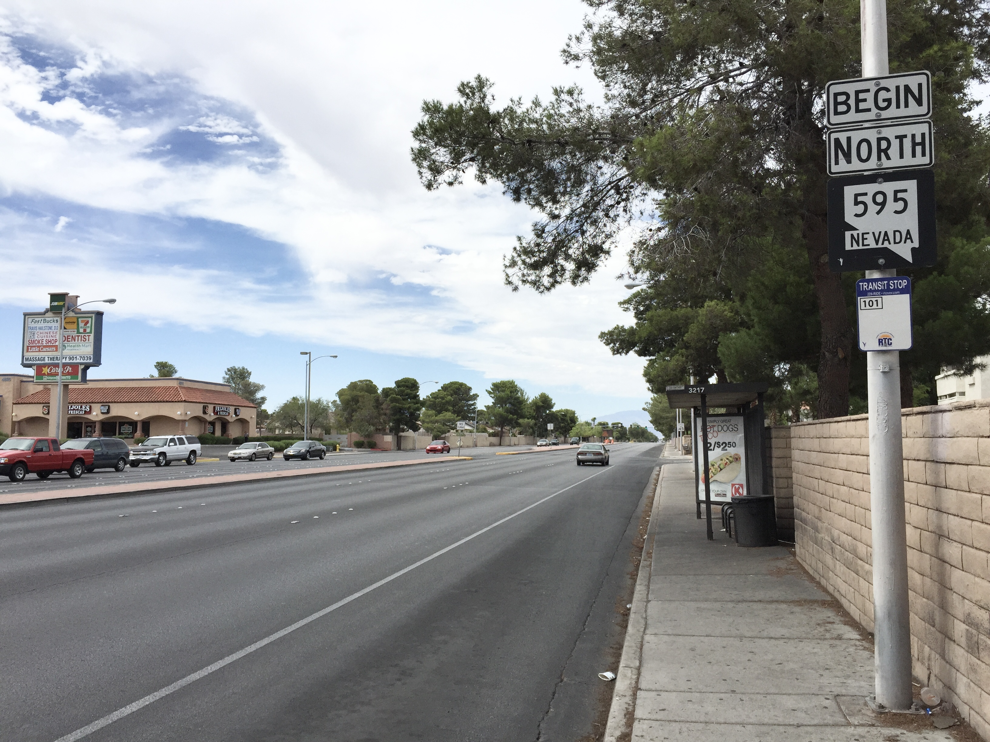 View north from the south end of Nevada State Route 595 (Rainbow Boulevard) near Las Vegas, Nevada